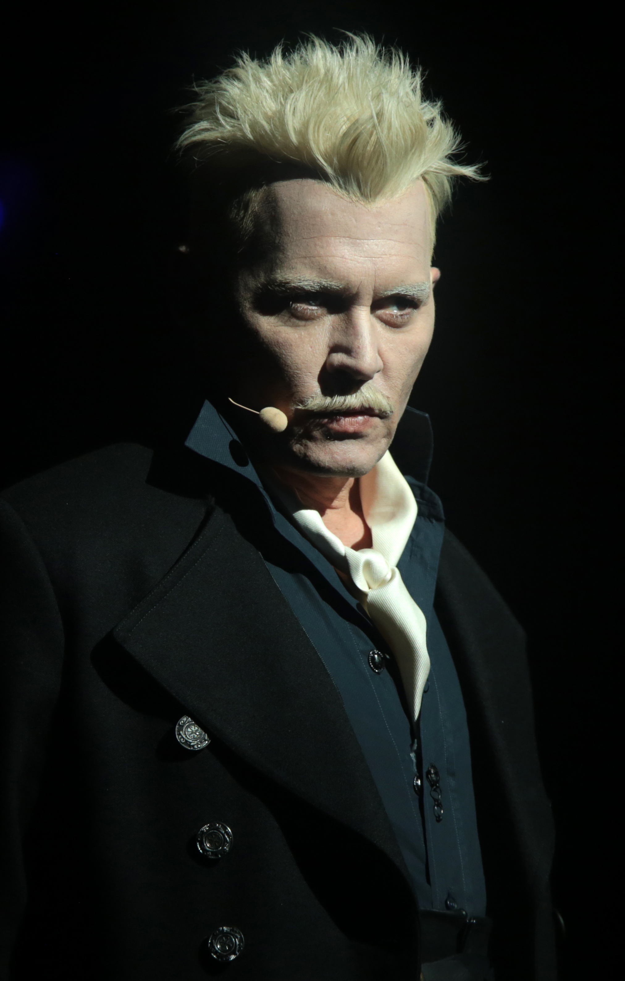 Johnny Depp speaking at the 2018 San Diego Comic-Con International in San Diego, California.